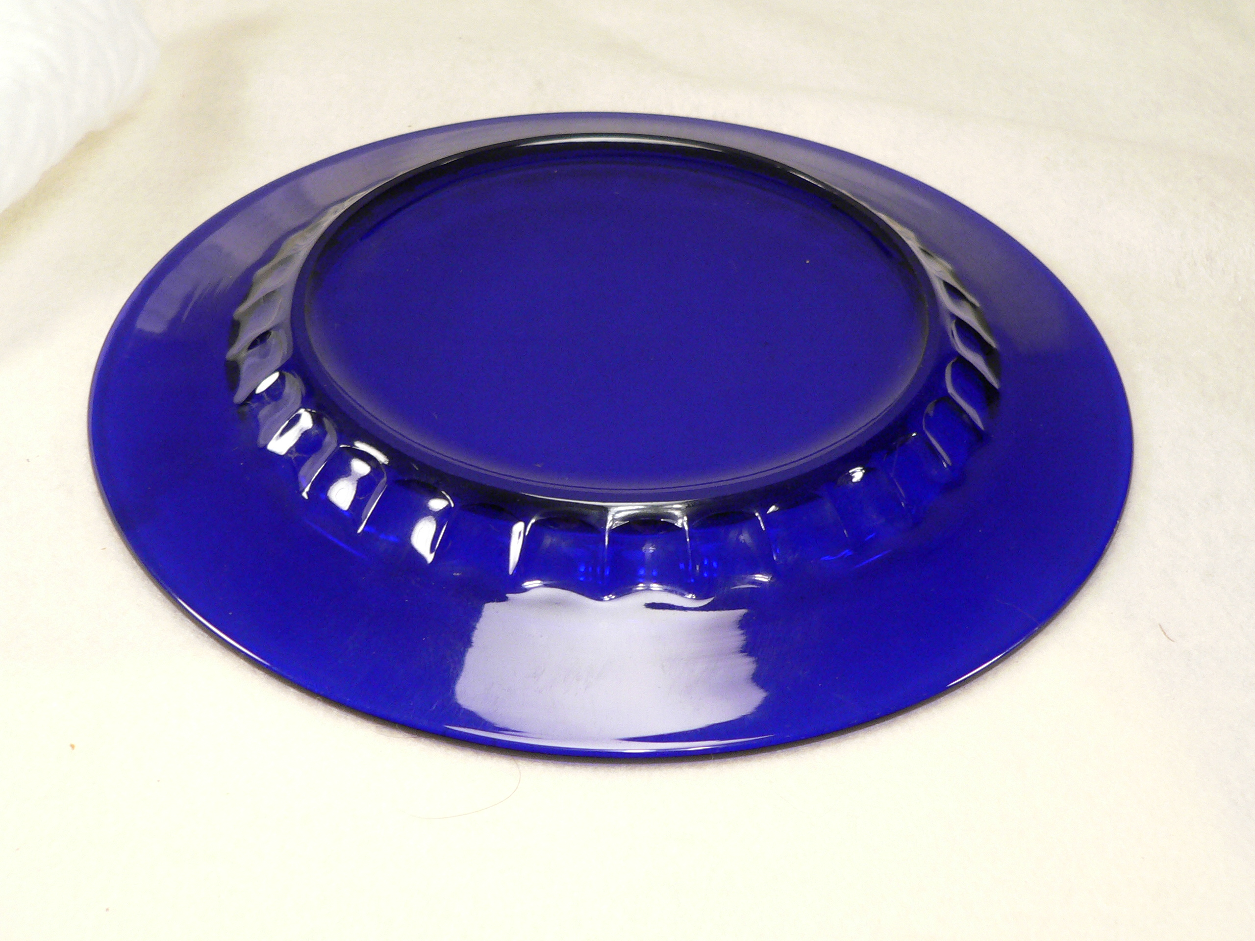 Photo of New Martinsville Glass/ Hostmater Plate Bottom in Cobalt blue. copyright status of Hostmaster Pattern is unknown. This pattern was made in the 1930's. The company no longer exists. The molds for this pattern no longer exist - they were destroyed in the 30's [1]